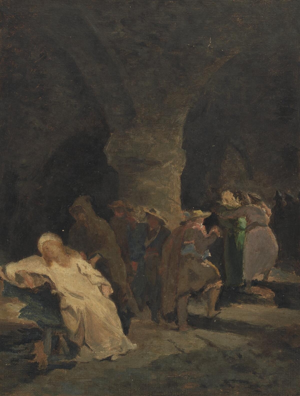 A painting from the Framed Works of Art collection at the National Library of wales.